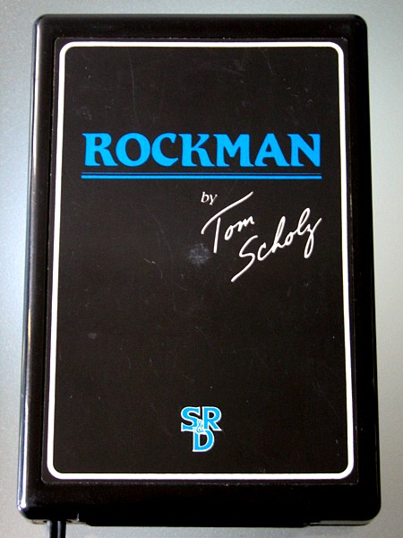 Mini-Amplifier Rockman